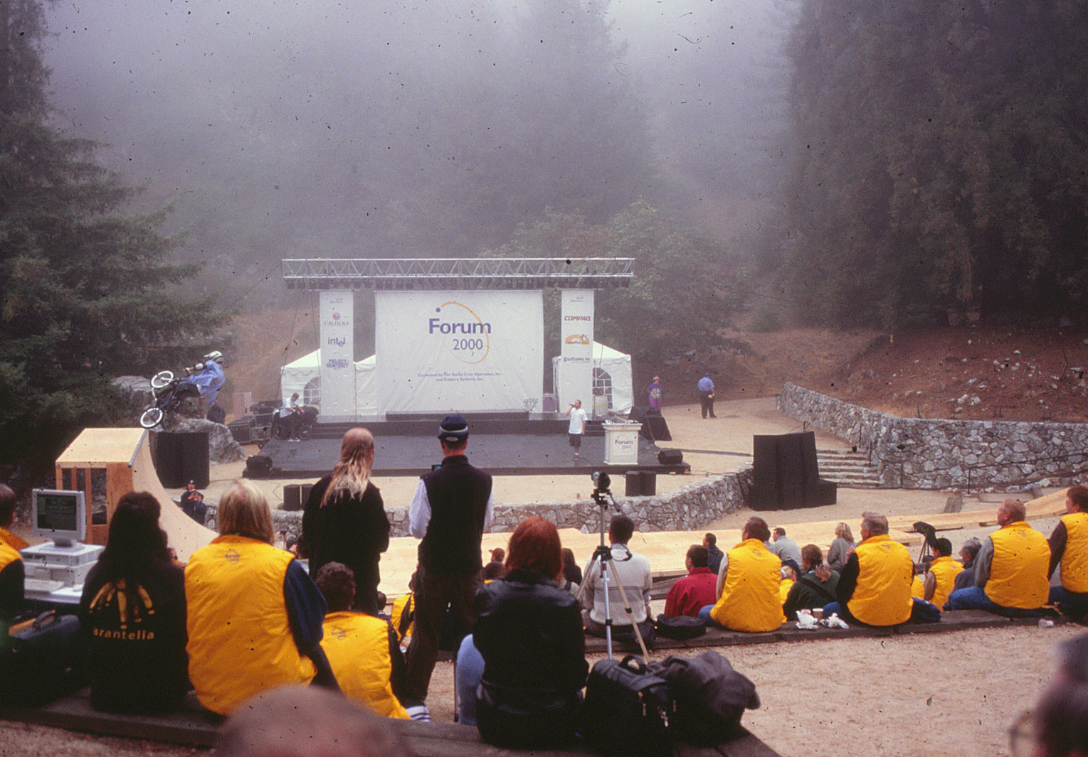 A freestyle bike exhibition put on to entertain the audience during the opening keynote sessions of the Forum 2000 conference. The normal 'SCO Forum' branding had been shortened to just 'Forum' due to the announcement earlier in August 2000 that Caldera Systems was acquiring most of SCO Unix. The keynotes were held in the early morning fog and mist in the quarry at UC Santa Cruz.